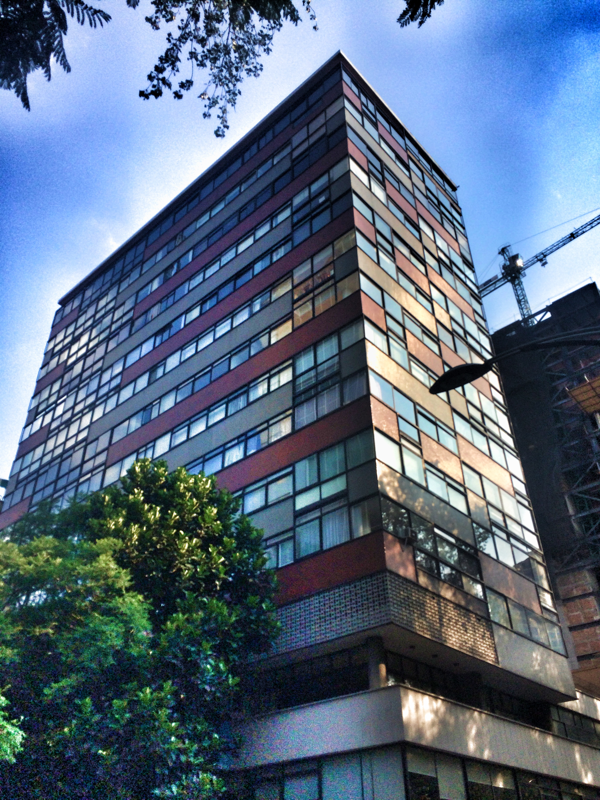 Reforma 368 (Mario Pani, architect, 1956)